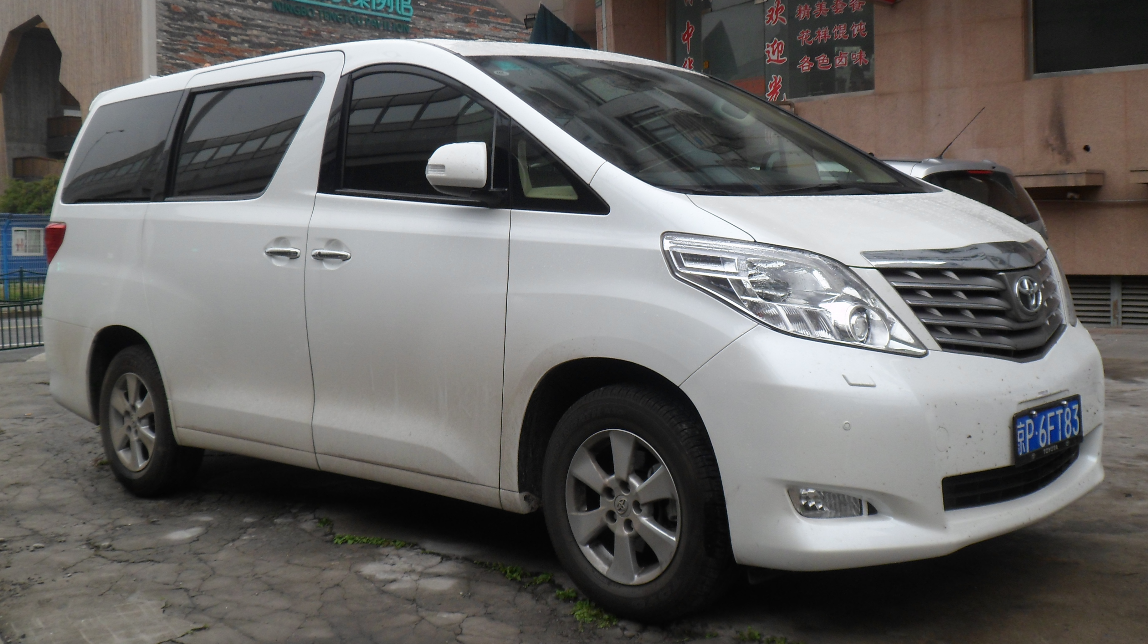 Toyota Alphard AH20 photographed in Shanghai, China.